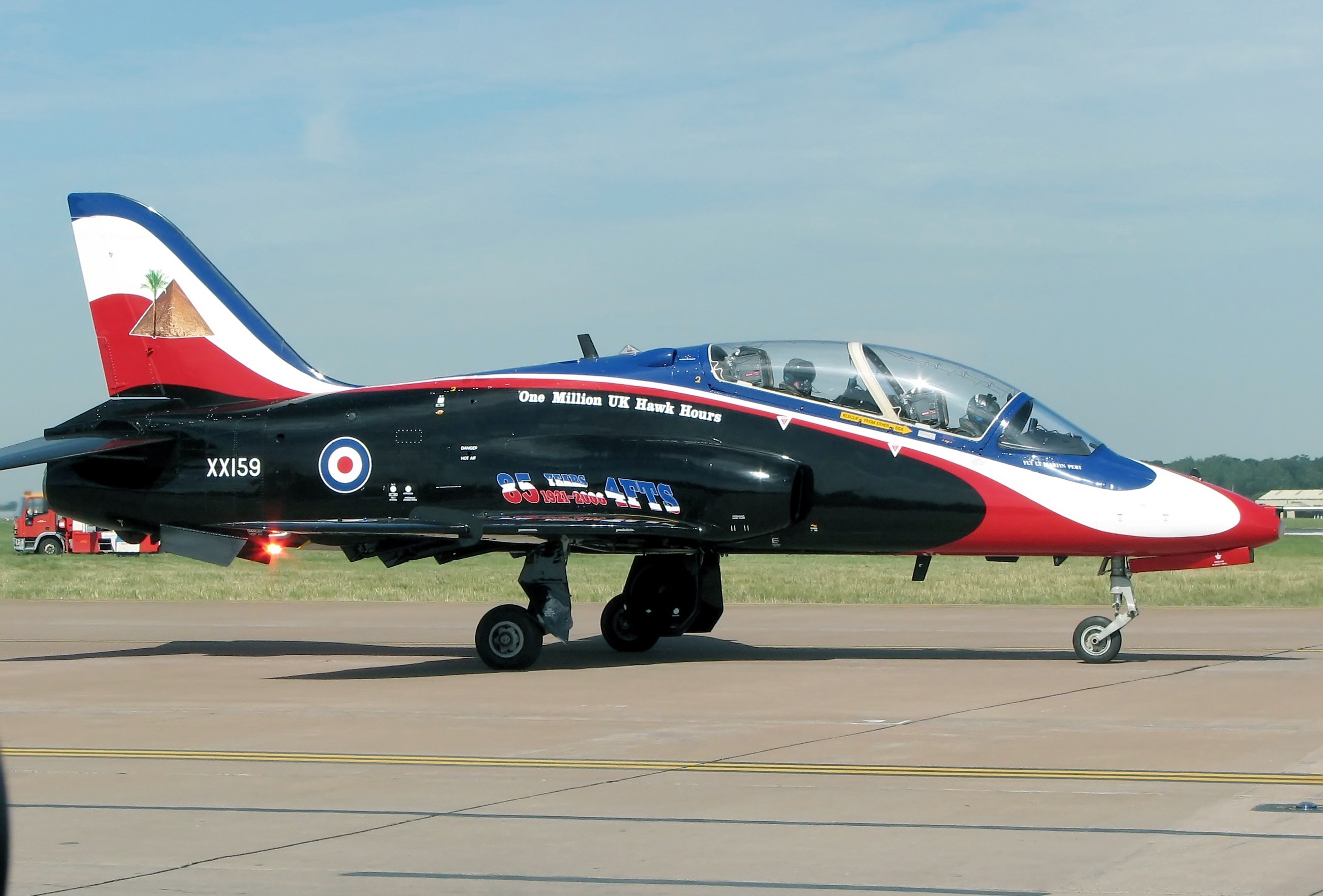 British Aerospace Hawk T.1A (code XX159) taxis for takeoff at the Royal International Air Tattoo, Fairford, Gloucestershire, England. The aircraft’s markings commemorate one million Hawk flying hours in the UK and the 85th anniversary of 4FTS (1921-2006). Photographed by Adrian Pingstone on July 17th 2006 and released to the public domain.